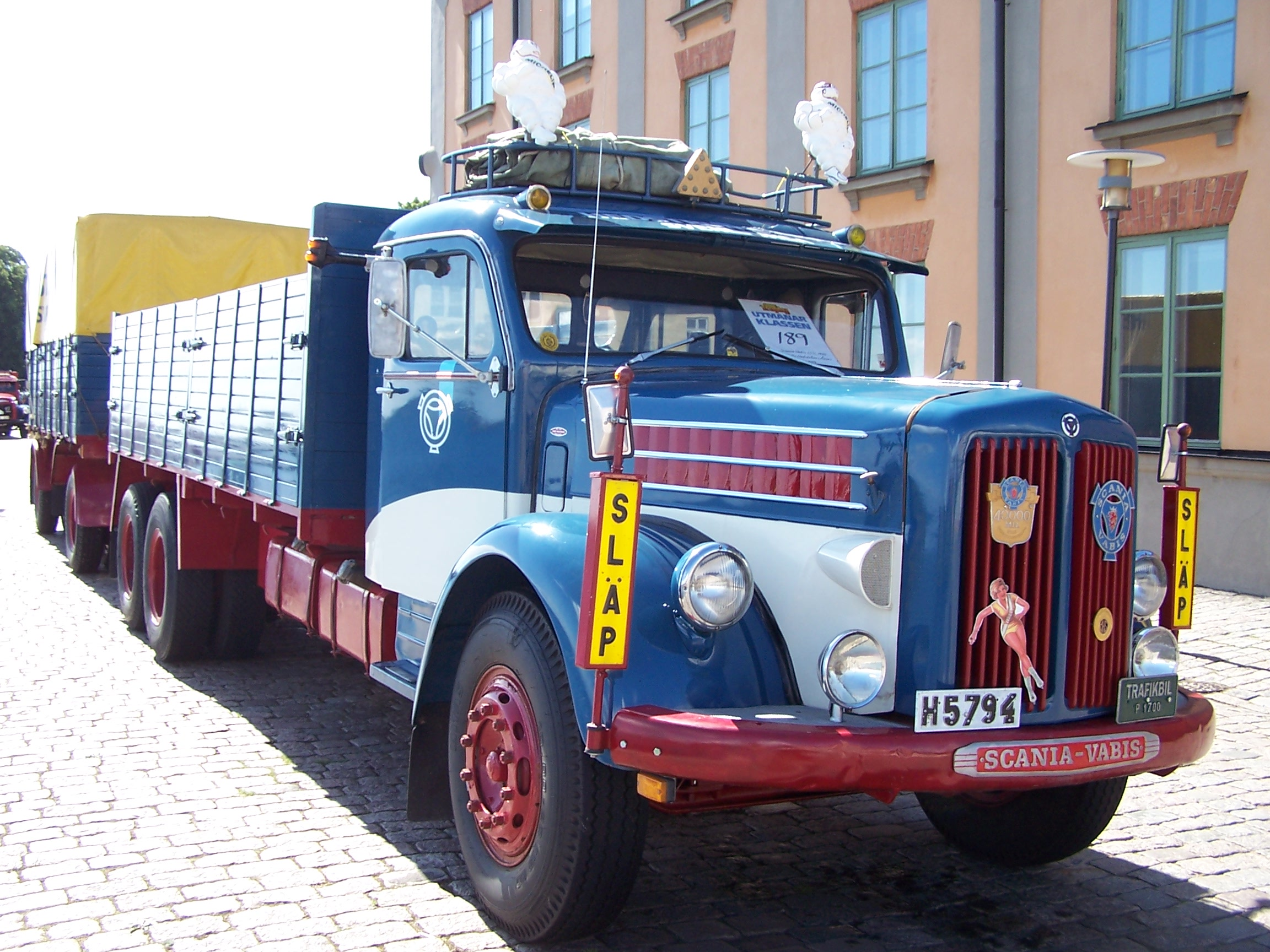 Scania Vabis LS71 (year 1955).